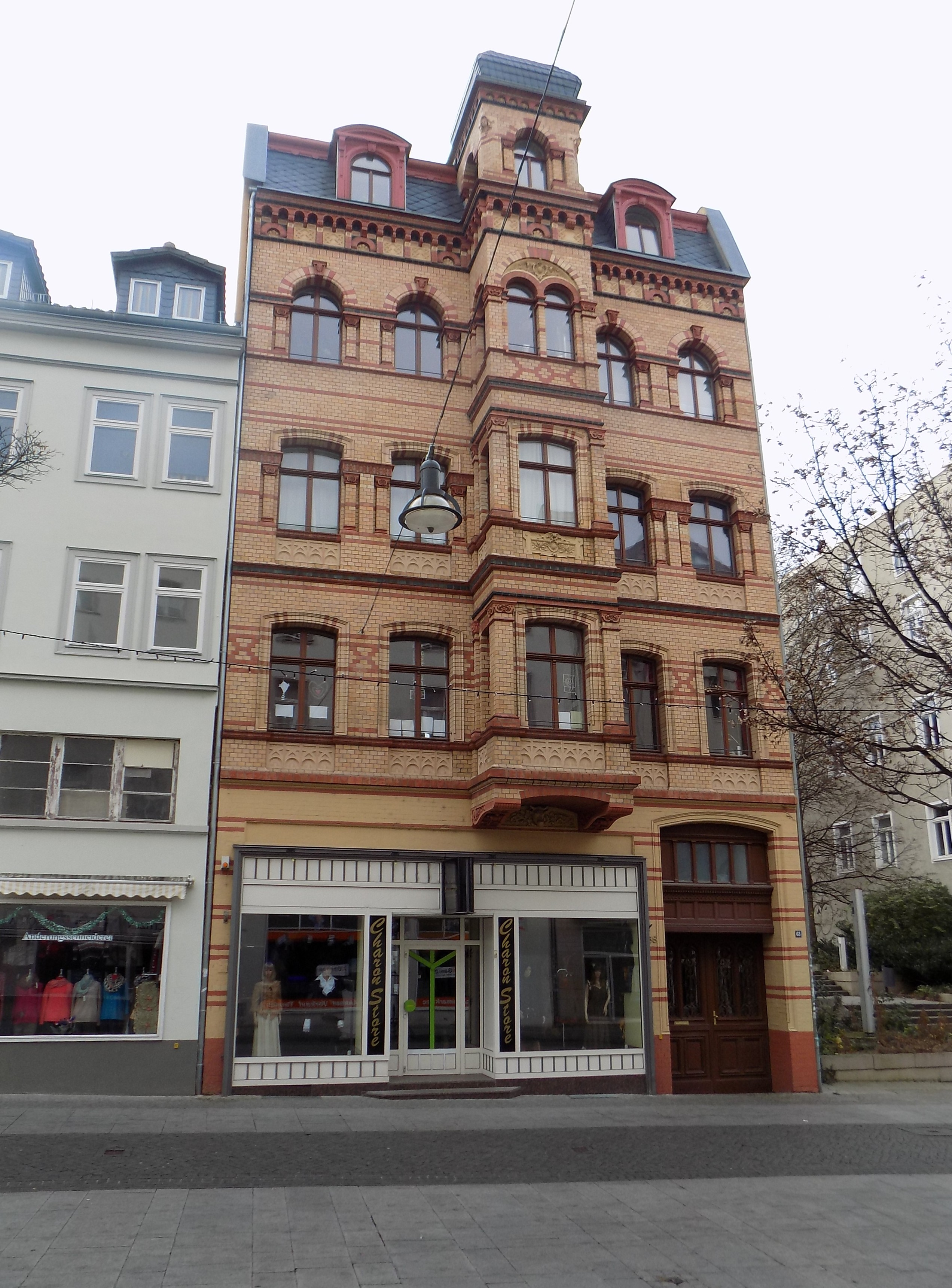 No. 68, Leipziger Strasse in Halle/Saale (Saxony-Anhalt)